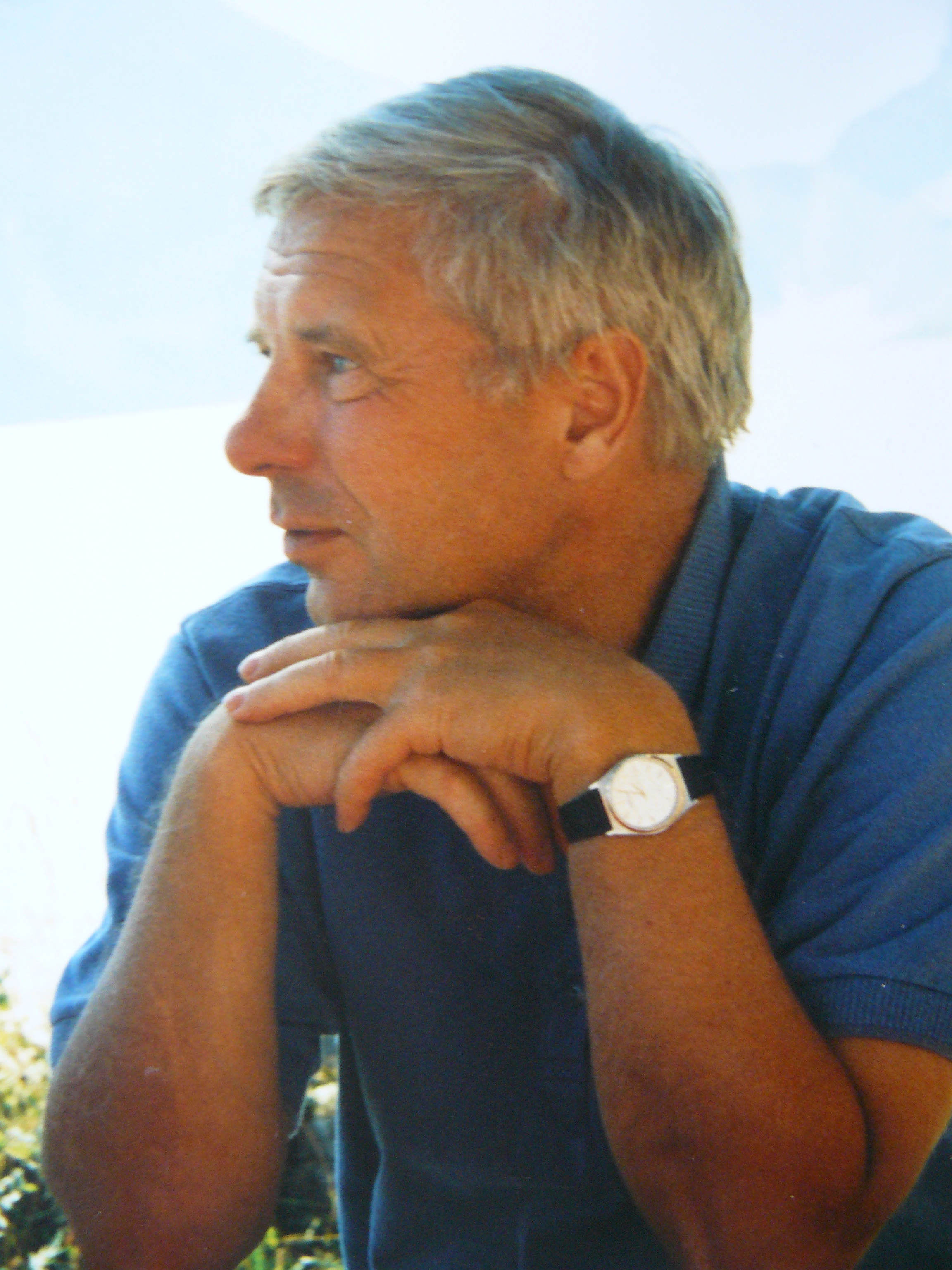 Prof. Dr. Peter Dimroth